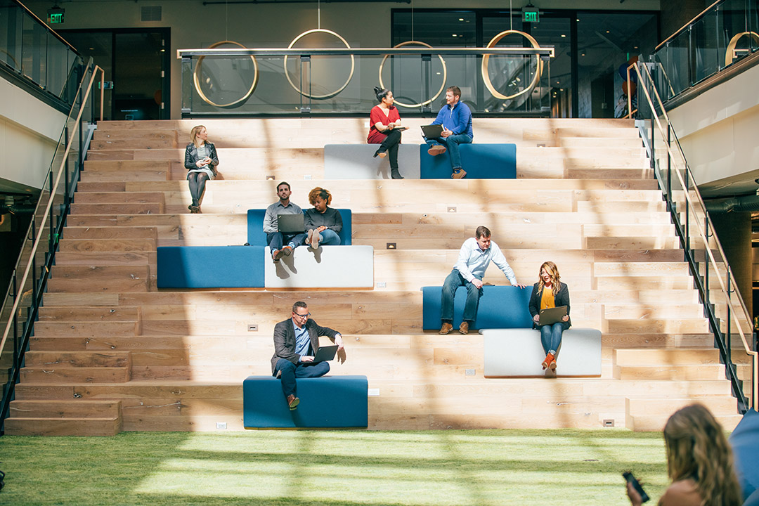 View of Mimecast North American Offices